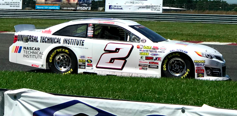 Ryan Vargas on pit road at New Jersey Motorsports Park in 2018.